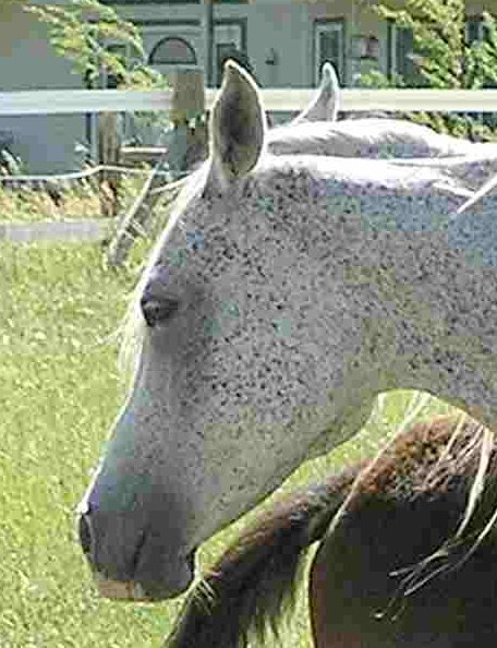 Flea-bitten gray purebred Arabian mare